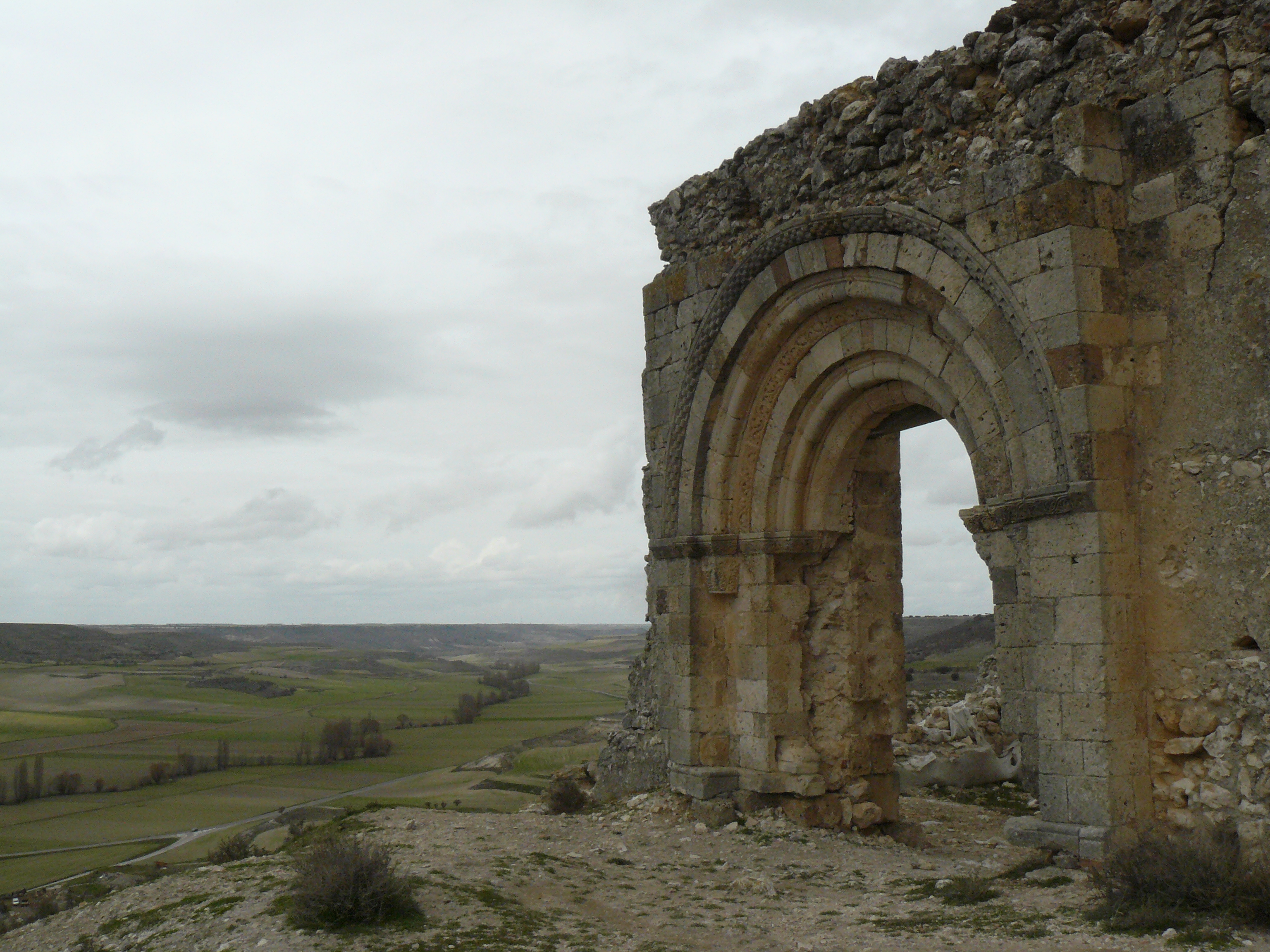 Detail of portal, hermitage of San Miguel, Sacramenia (province of Segovia, Castile and León, Spain).